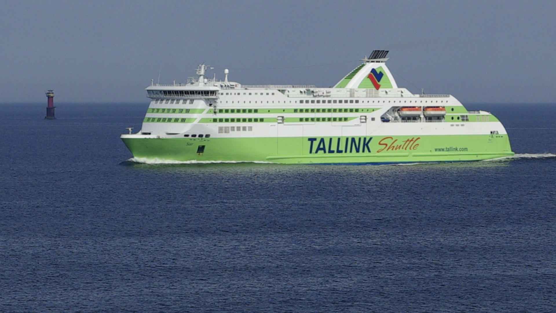 Tallinnamadala lighthouse and Tallink M/S Star, photo was taken from deck of Superstar